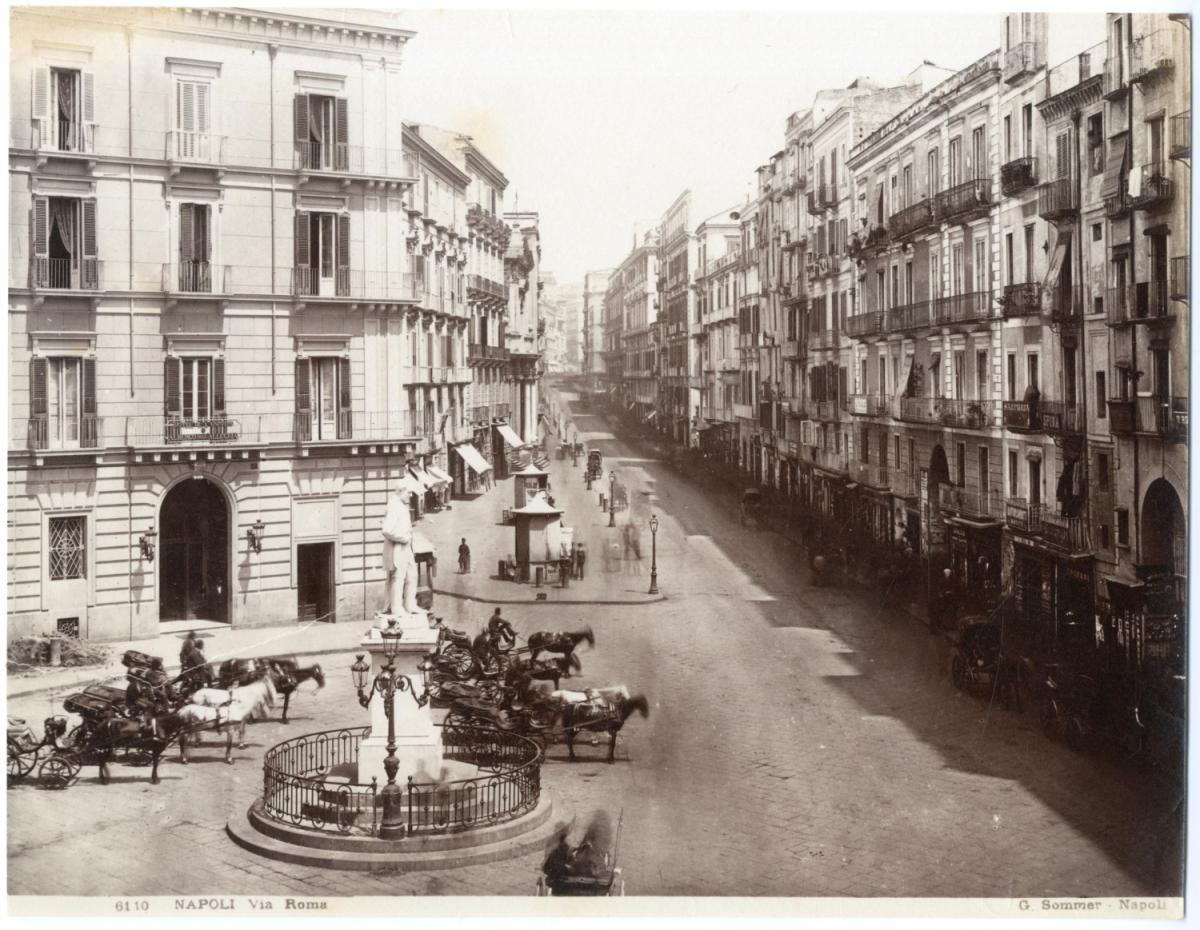 Giorgio Sommer (1834-1914), "Naples - Via Roma street". Catalogue # 6110 (first take with the same subject and number).